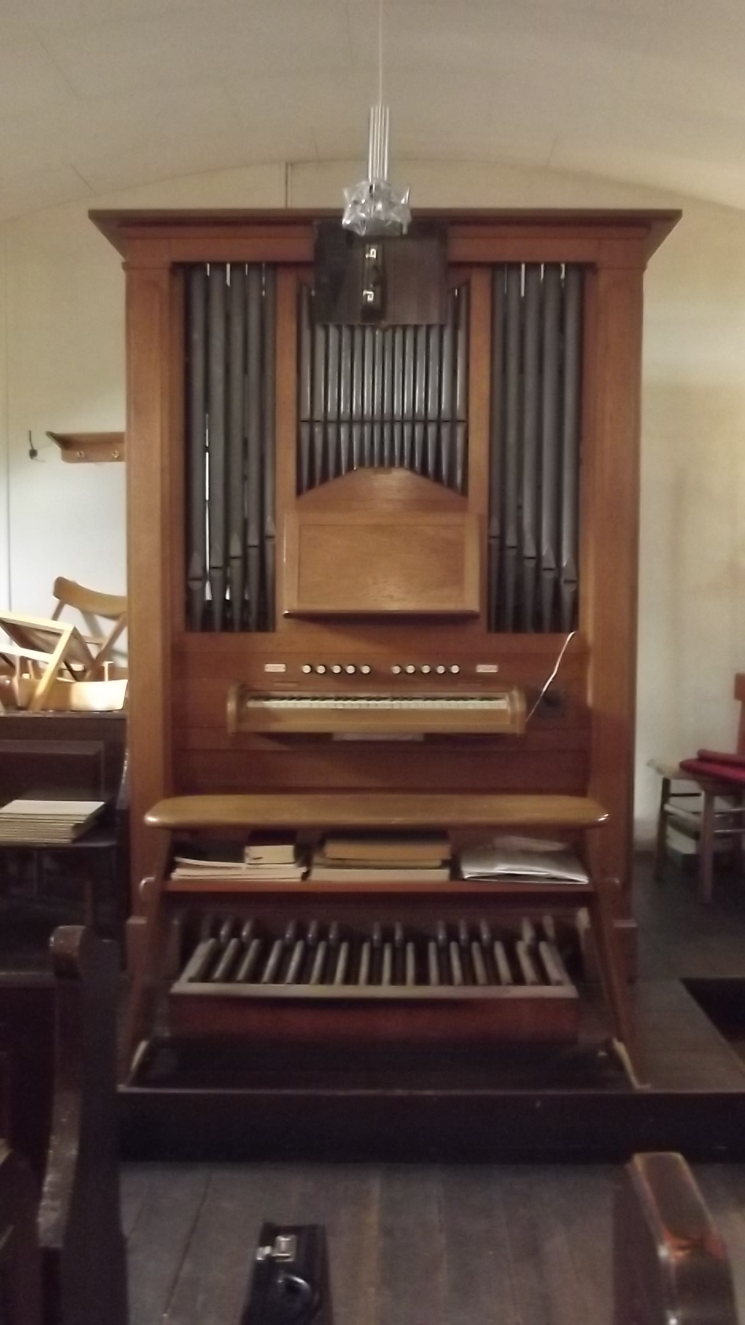 Interior of the protestant church in Bosen, Saarland